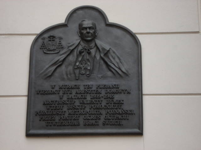 Memoria desk of archbishop Walenty Dymek at the Parish House of the Our Lady of Sorrows Church in Poznań